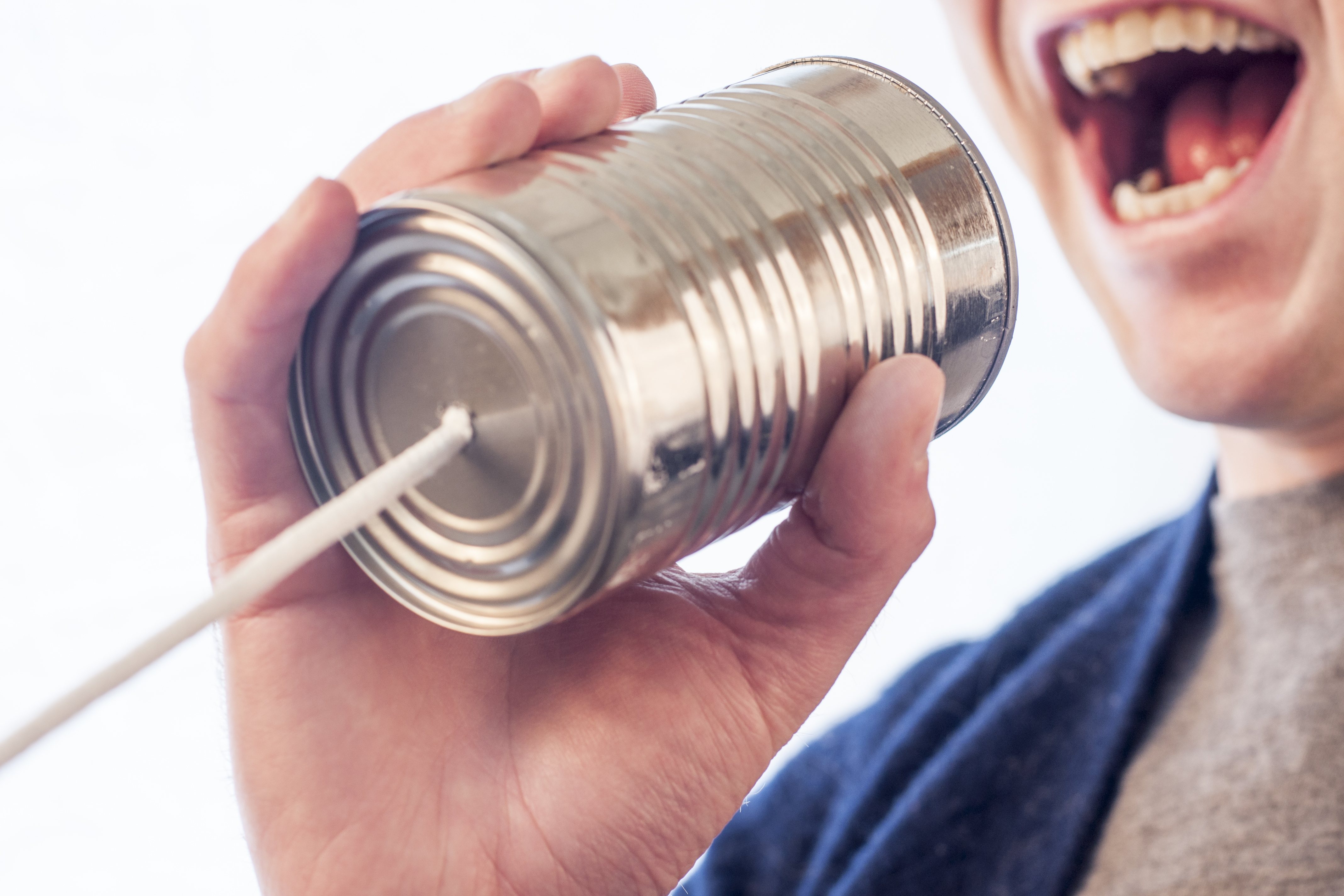 marketing-man-person-communication